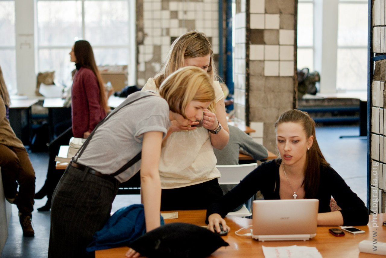 Zonaspace coworking in Saint Petersburg, Russia. Spontaneous collaboration between coworkers.